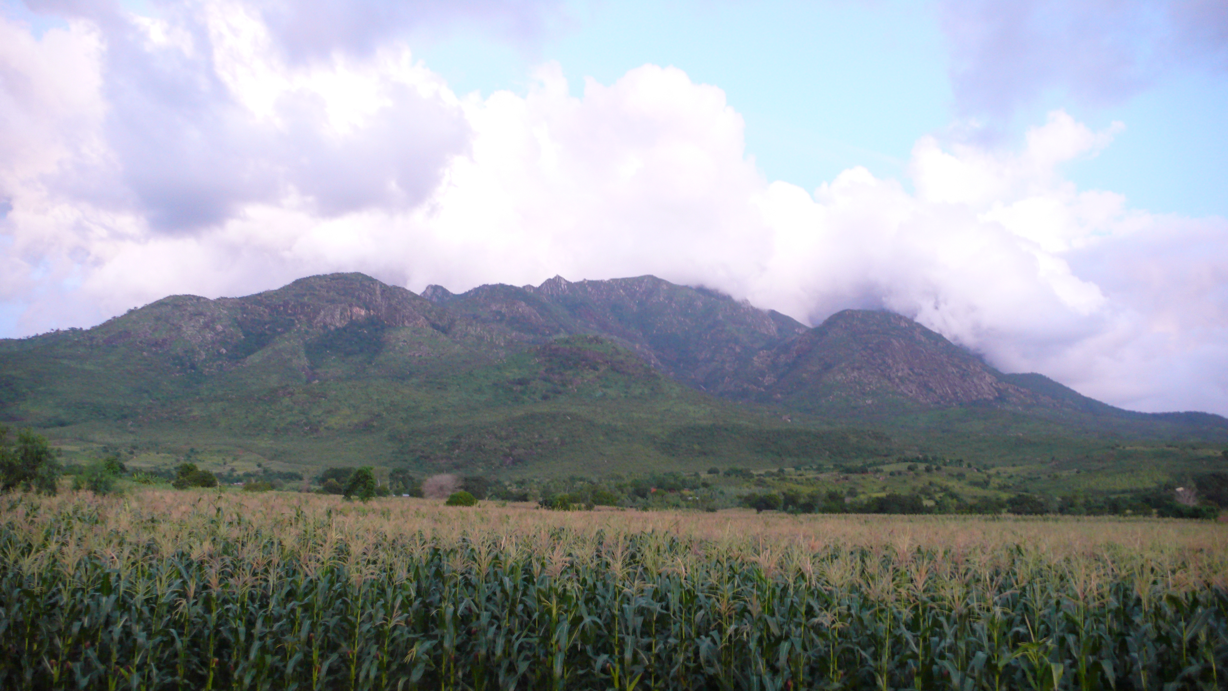 One view of Mulanje when you are at Phalombe